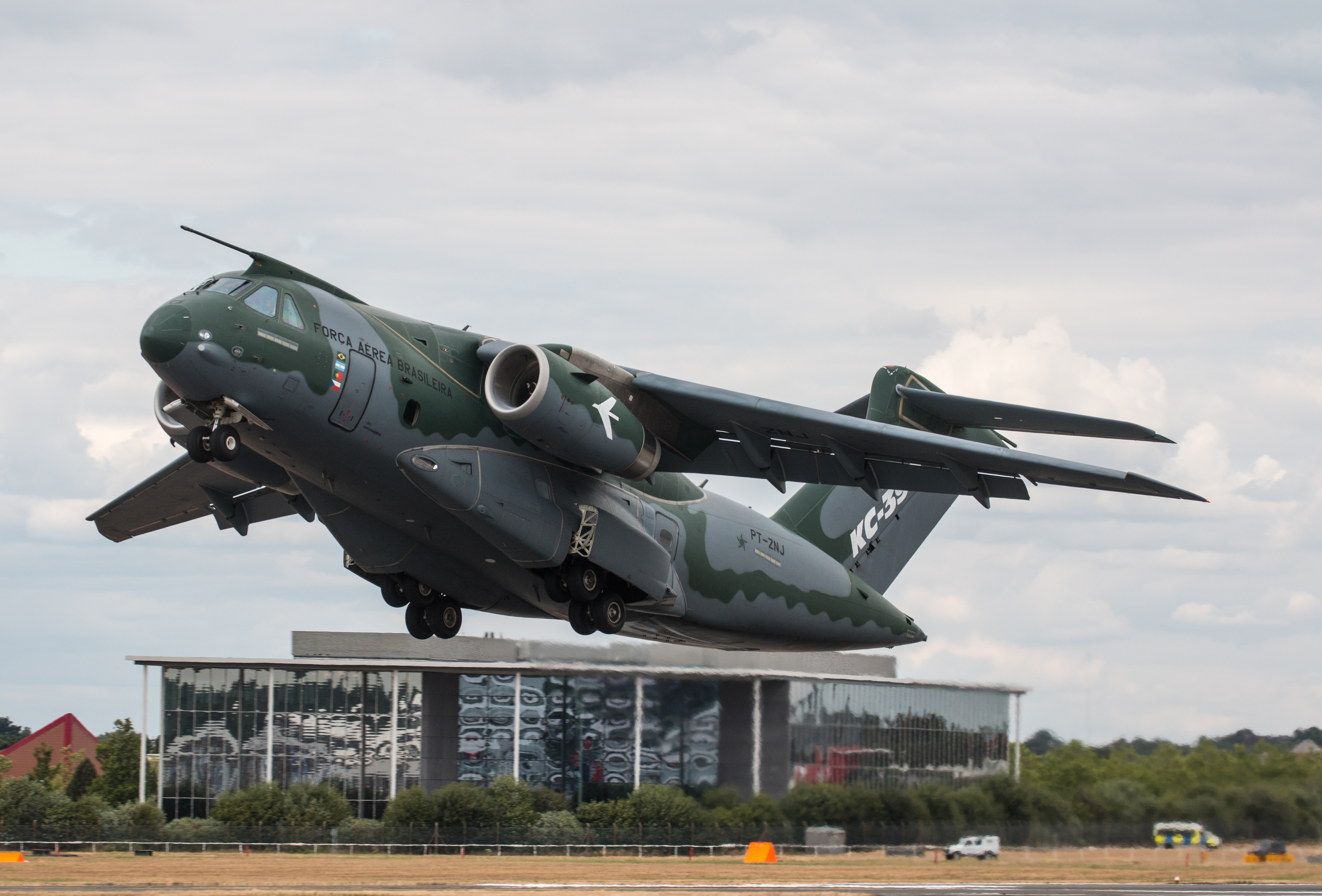 Farnborough International Airshow 2018, Hampshire